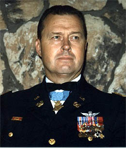 United States Army Major Frederick E. Ferguson earned the Medal of Honor for his actions during the Tet Offensive Jan. 31, 1968. He was the first Army aviator to receive the Medal of Honor in Vietnam. President Richard Nixon presented Ferguson the medal at the White House May 17, 1969.